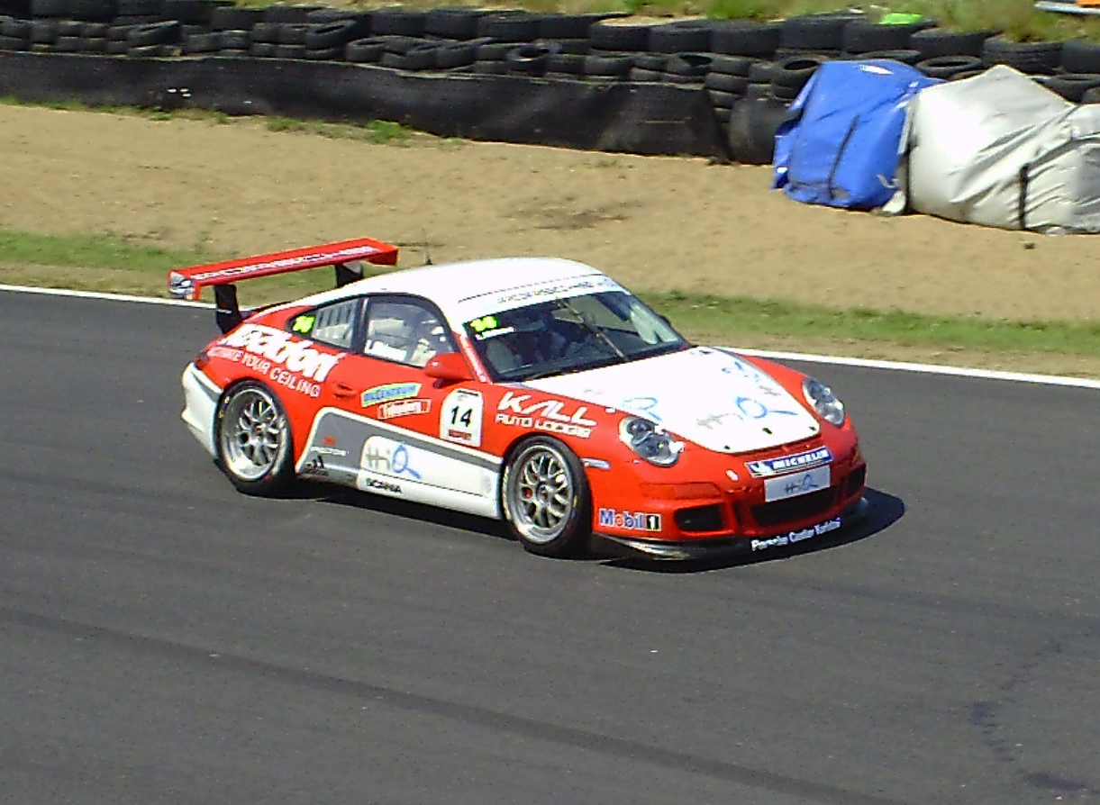 Linus Ohlsson in Porsche Carrera Cup Scandinavia for Flash Engineering at Falkenbergs Motorbana 2010.